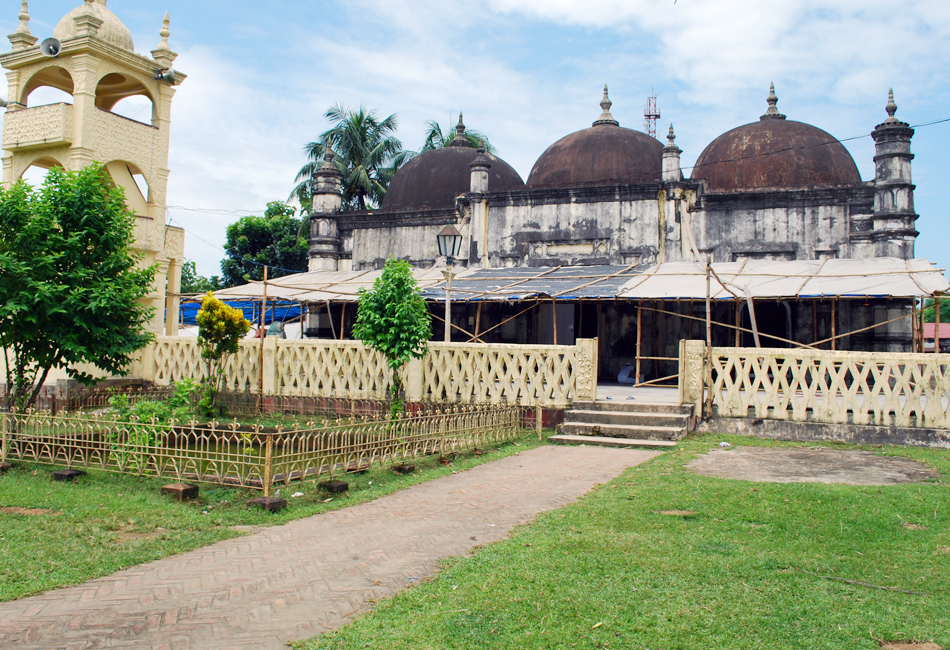 The historic Panbari Masjid or Rangamati Masjid is the oldest Masjid in Assam,is situated at the National Highway 31, about 25 km east from Dhubri town, near Panbari and Rangamati,erected by Hussain Shah,the Governor of Bengal between 1493 and 1519 AD.